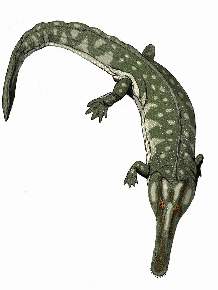 Collidosuchus.